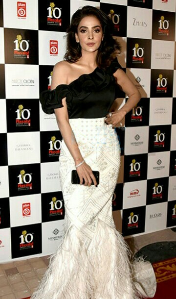 Saba Qamar grace Masala Awards 2017